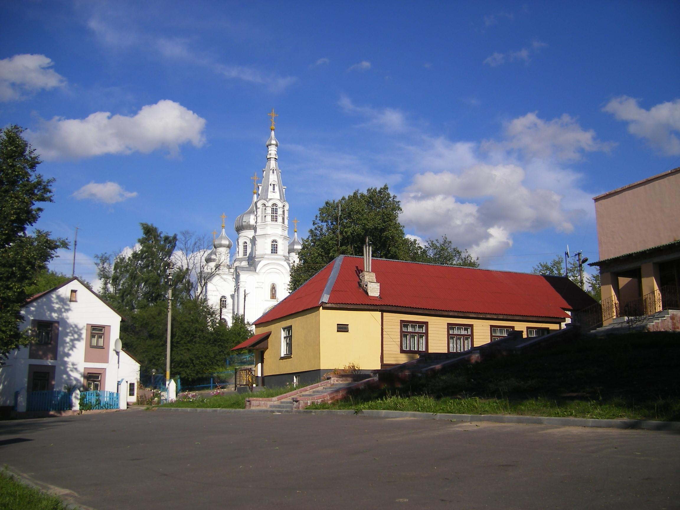 Kamyanets, St. Simeon church (1914).